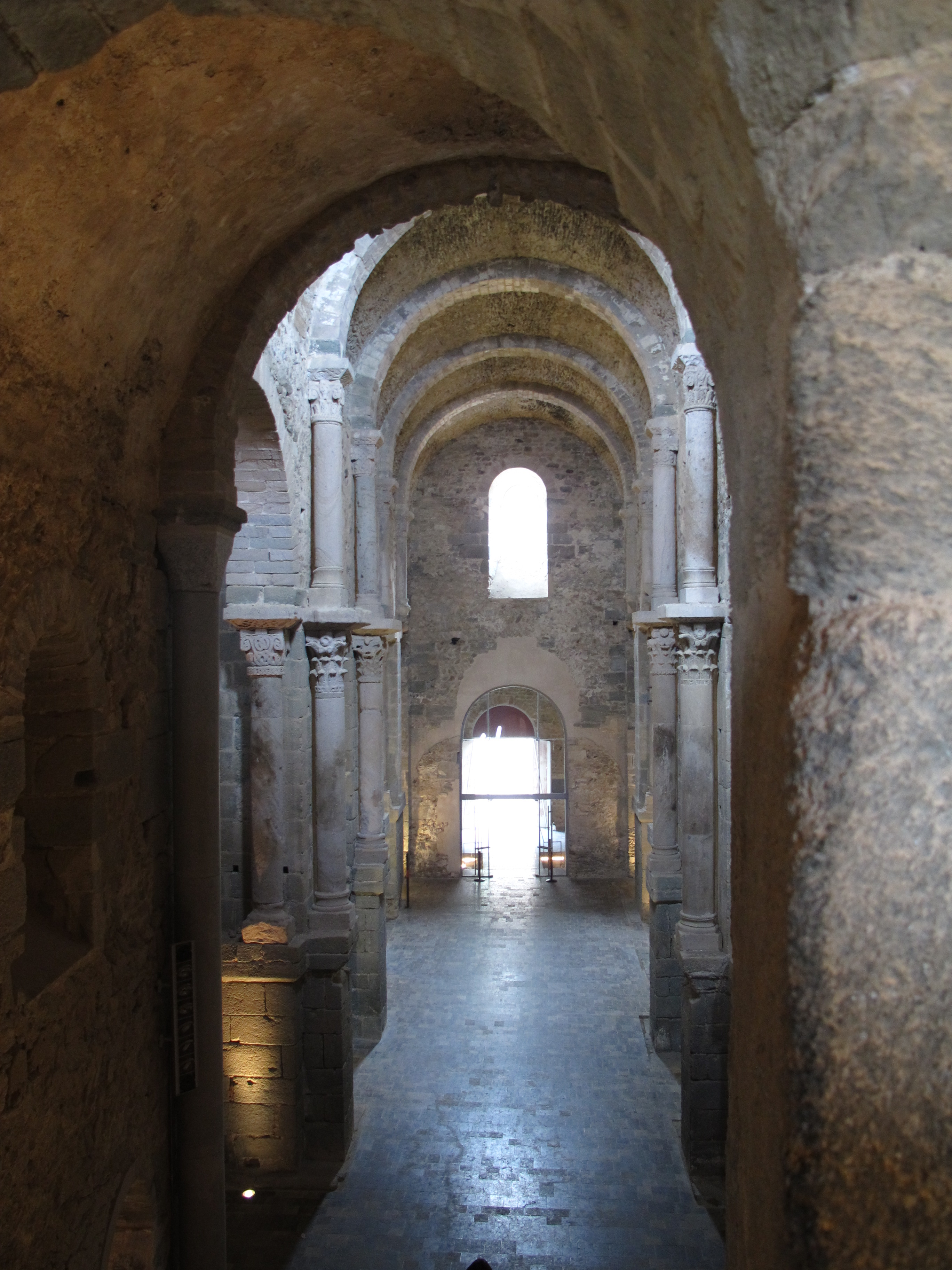 Nave viewed from the upper ambulatory